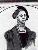 Berengária of Portugal.